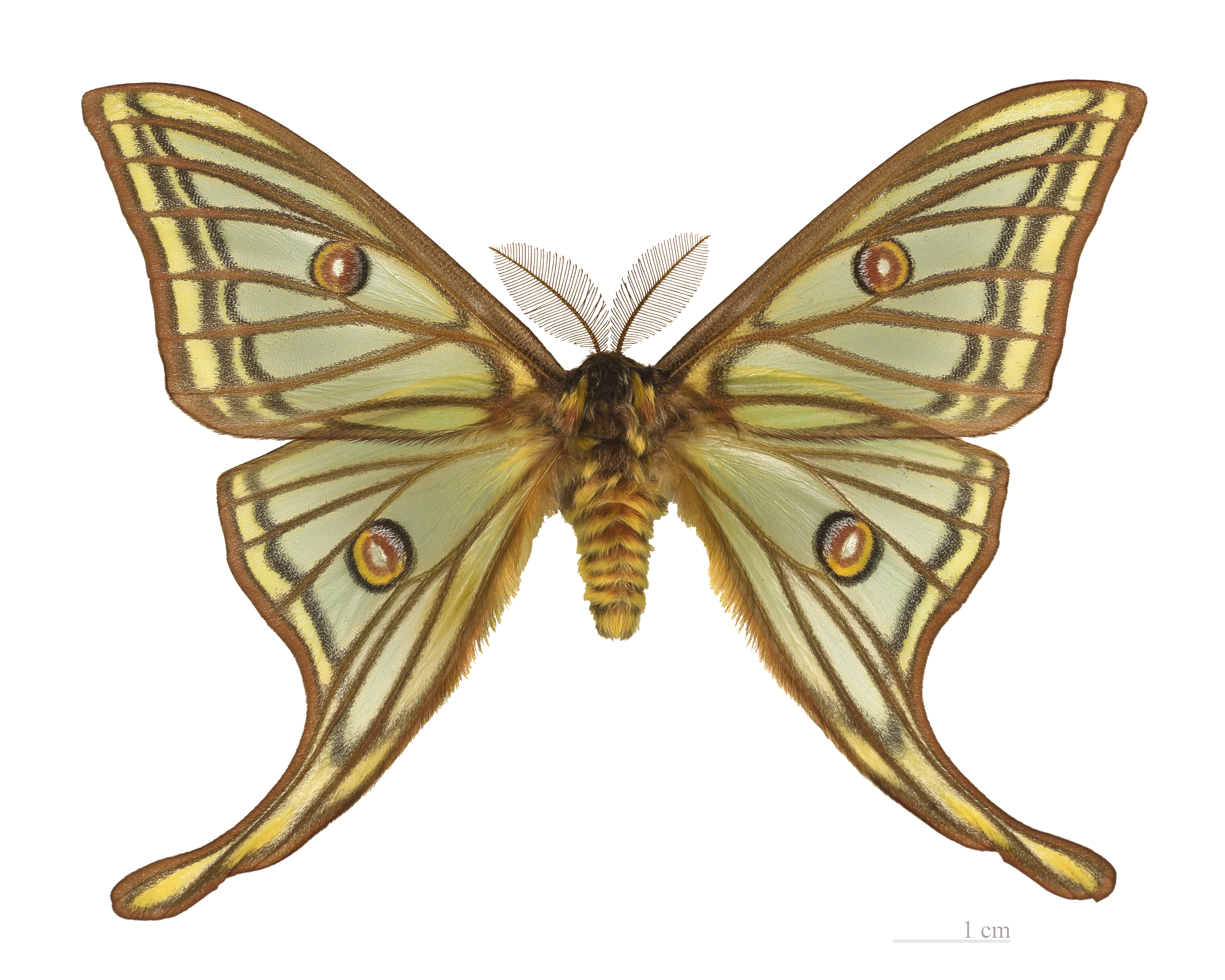 Spanish Moon Moth ♂ - Dorsal side Locality: Roncal, Navarra, Spain